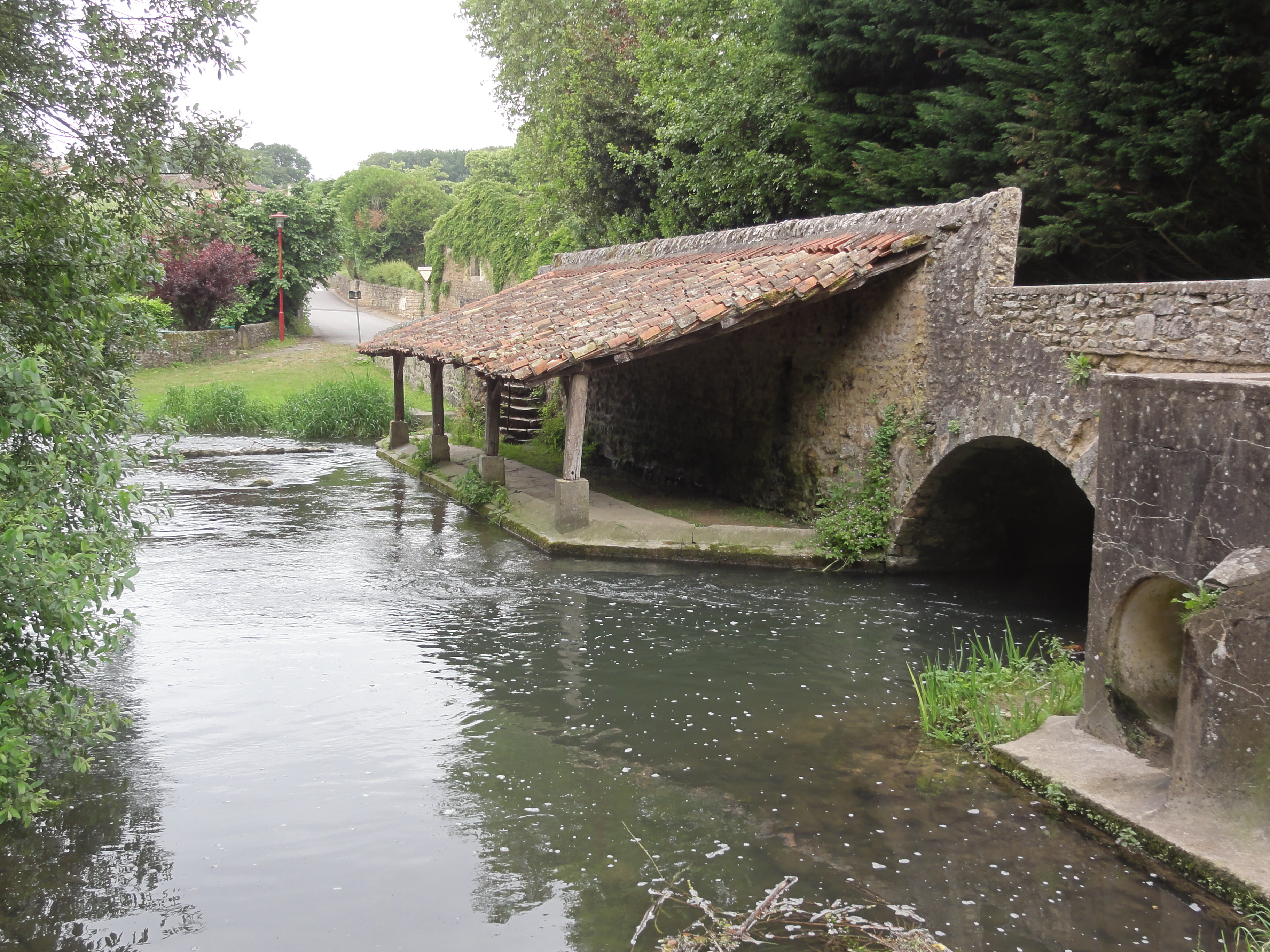 Quinçay (Vienne) pont et lavoir sur l'Auxance